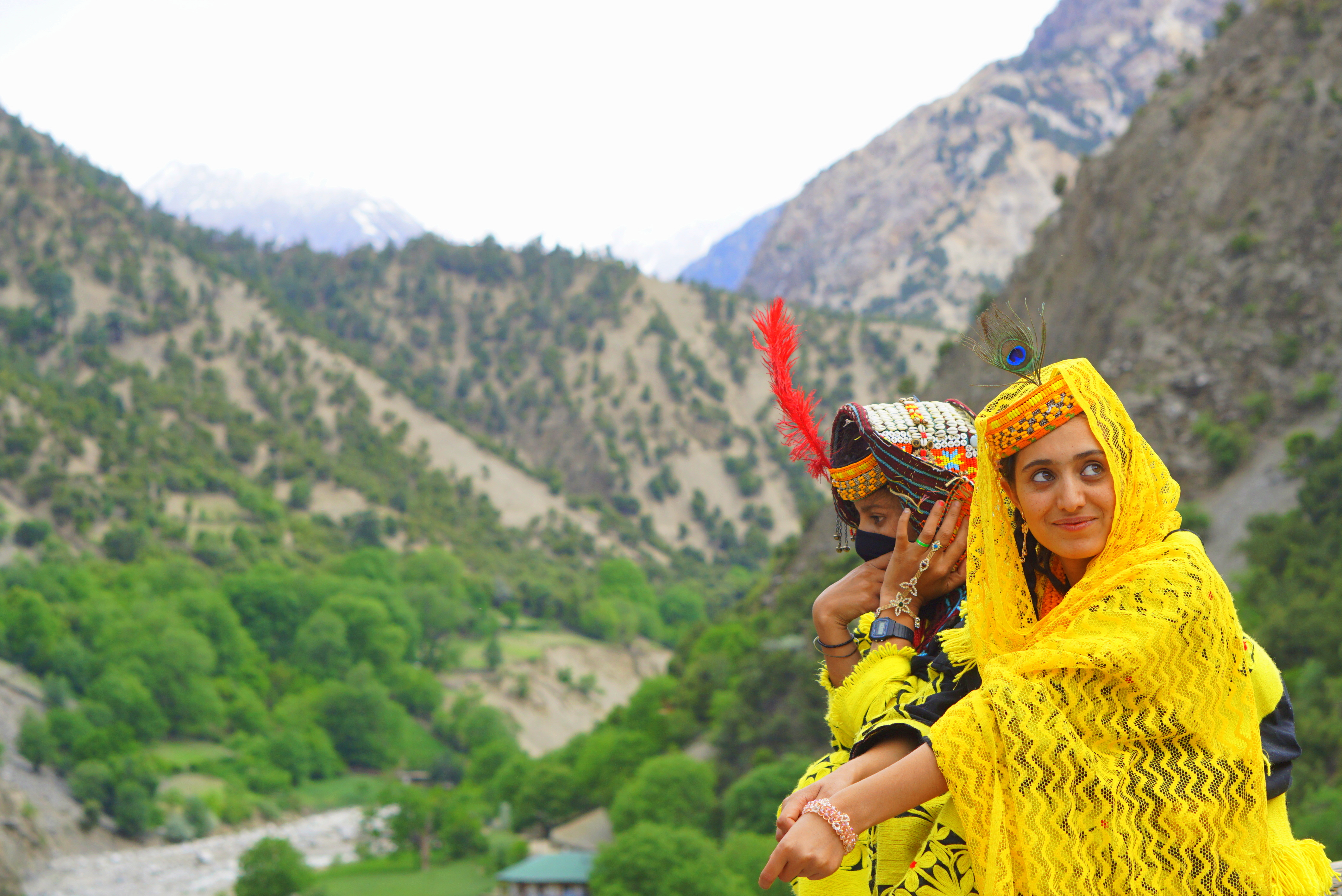 Two Kalashi girls overlook the view in Bamburat village during the annual Chilam Joshi festival.